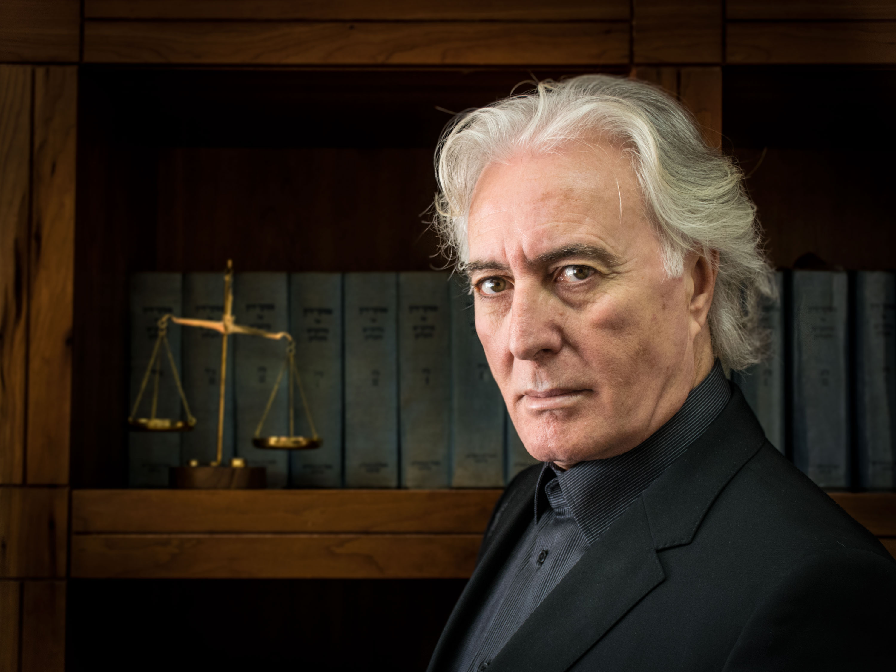 Zion Amir. Israeli Lawyer. Represented many public figures in Israel including the Ex-president of Israel Moshe Katsav during his period in prison. Image created as part of the People Pictures Project of Wikimedia Israel